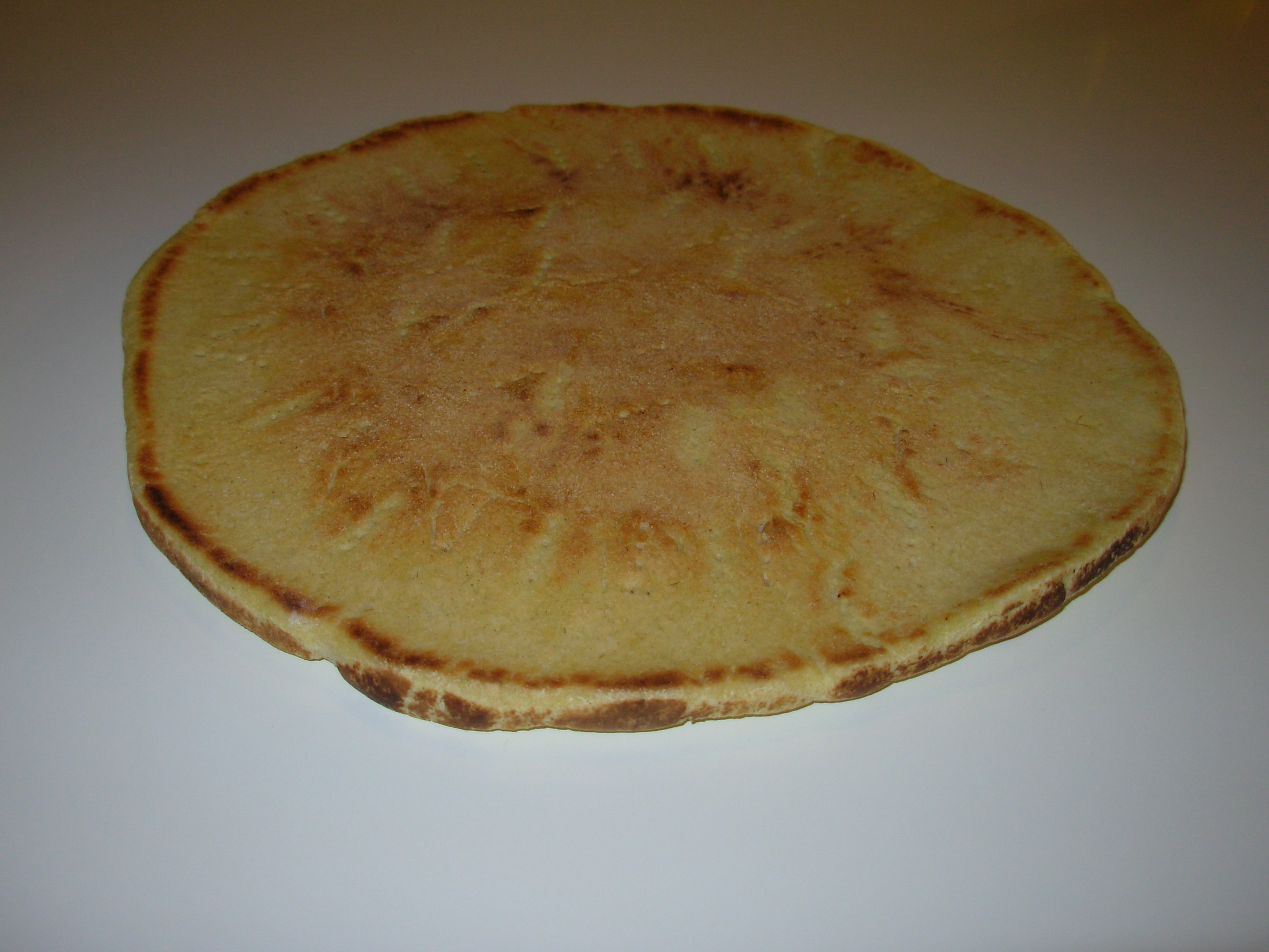 Maghrebian bread : algerian kesra